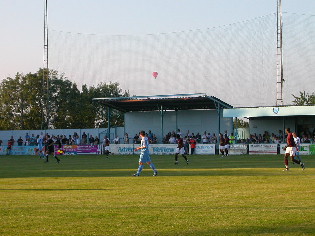 Rugby - Butlin Road